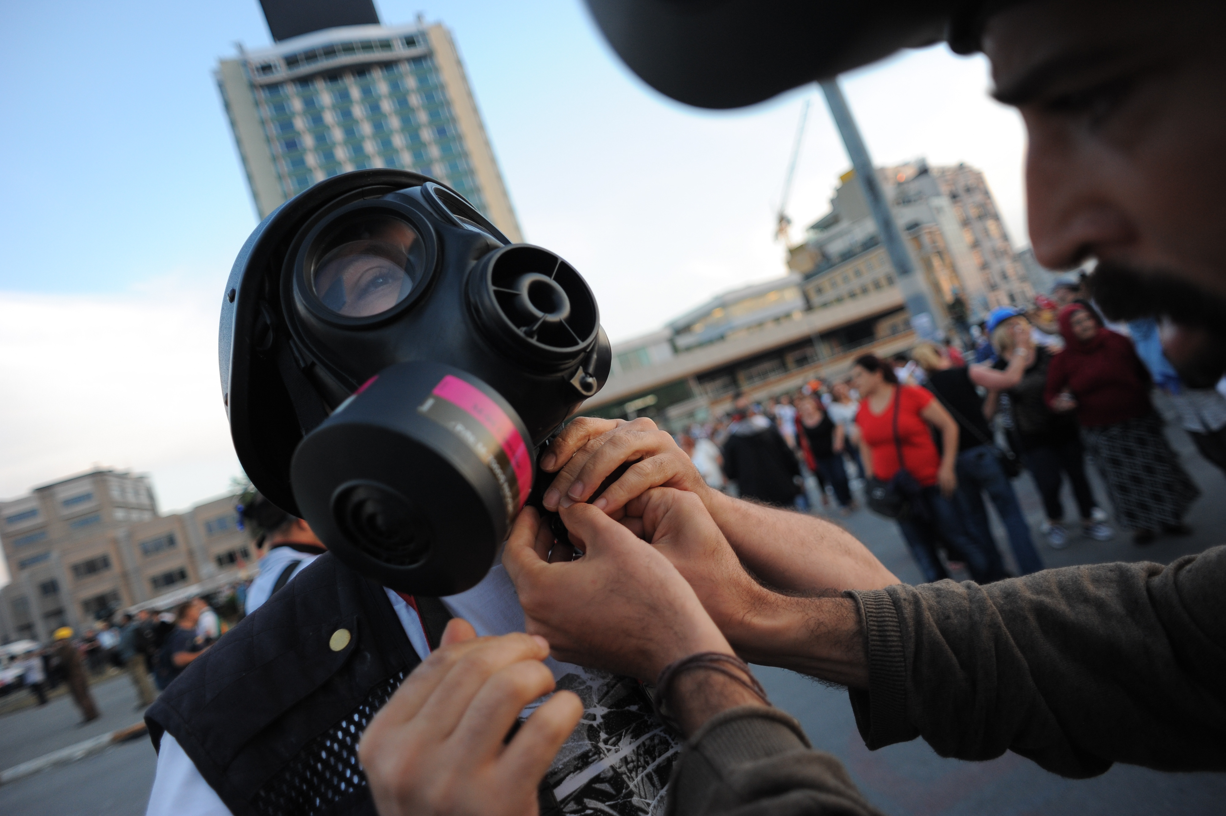 Teargas protection during Istanbul protests. Events of June 16, 2013.